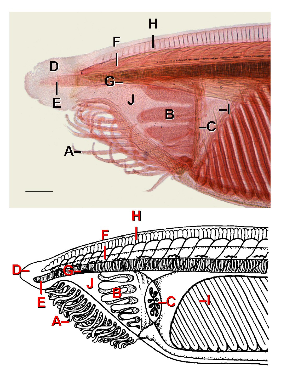 Anterior, external anatomy of the Lancelet Branchiostoma. A: Buccal cirri, B: Wheel organ, C: Velum, D: Rostrum, E: Notochord extending beyond nerve cord, F: Nerve cord, G: Hatschek's pit, H: Fin rays, I: Gill bar, J: Buccal cavity (vestibule).